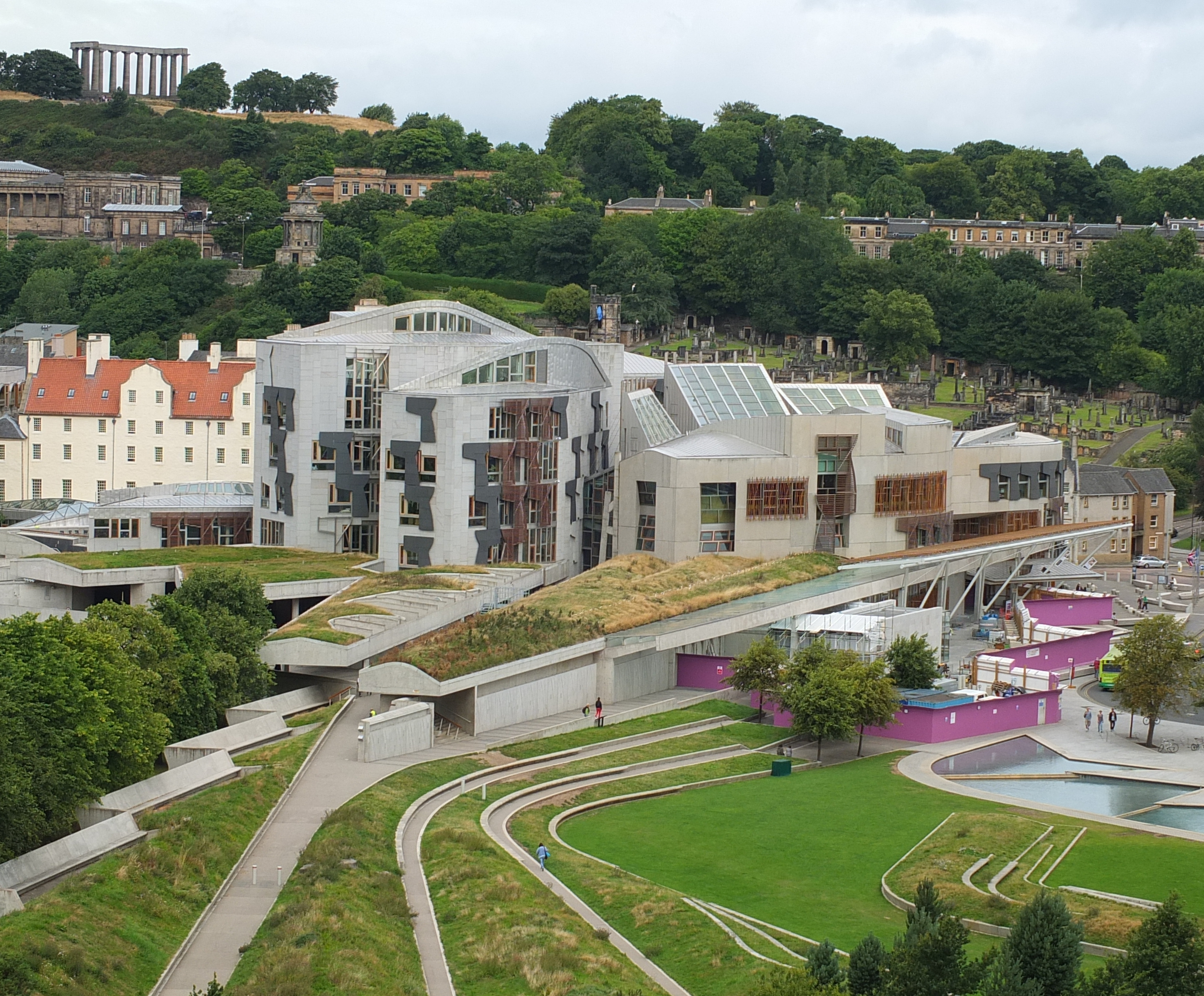 Scottish Parliament (informally known as Holyrood) as seen from the Salisbury Crags